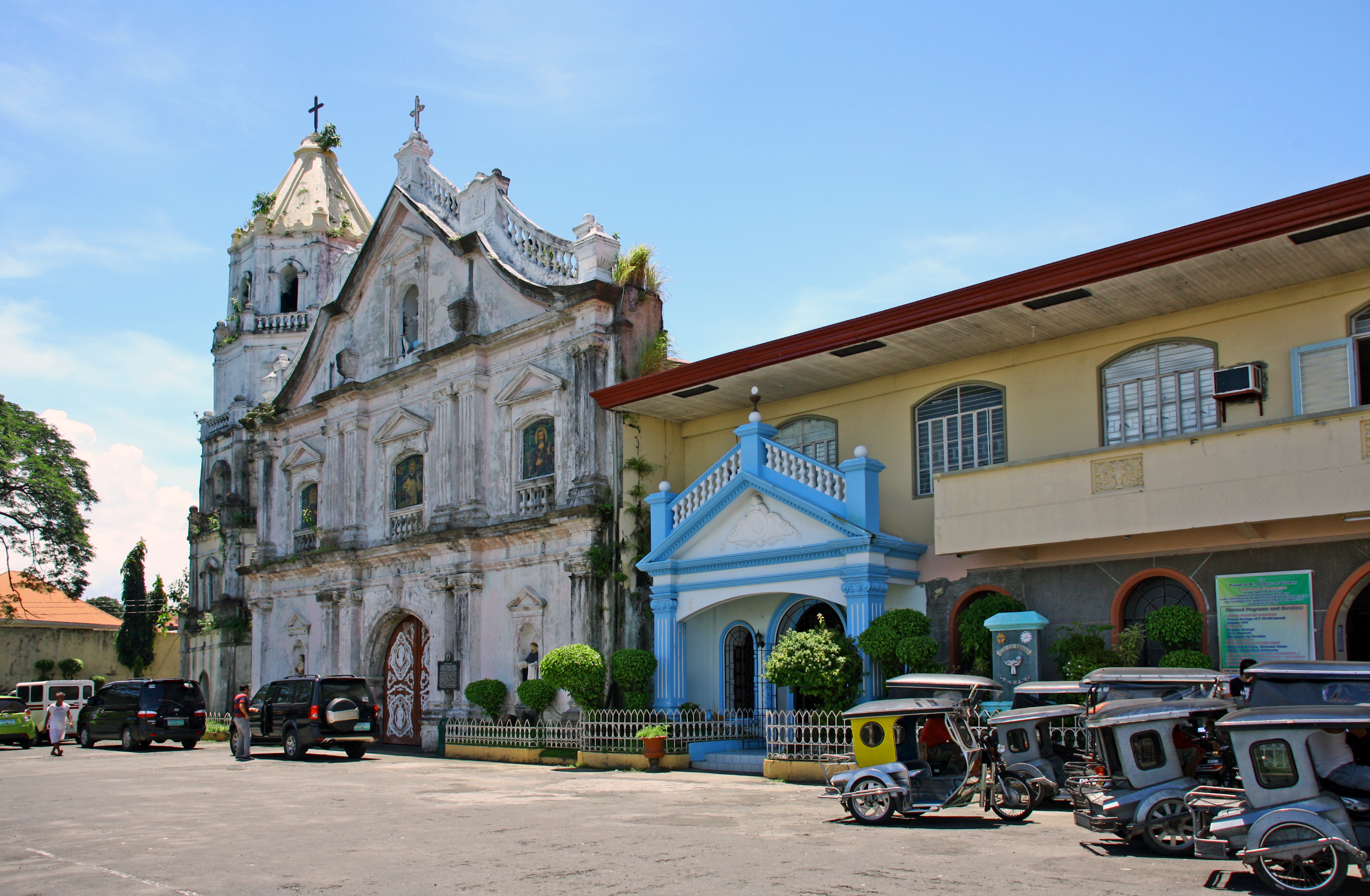 Facade of the Santo Domingo Parish Church in Abucay, Bataan